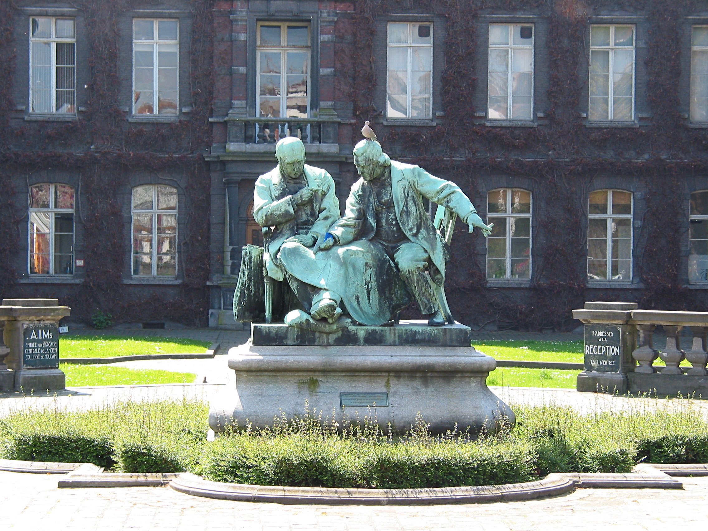 Mons (Belgium), statue of the two founders of the « l’École des mines » actualy preferably named « Faculté Polytechnique de Mons-Hainaut » (sculptor: Louis Henry Devillez).